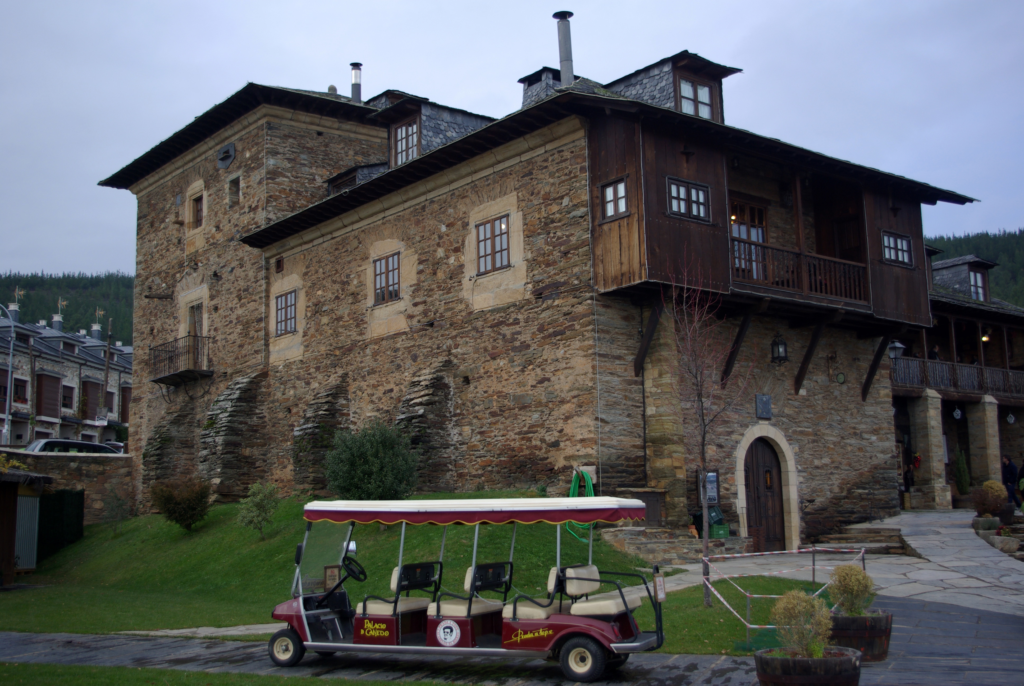 Canedo Palace, (Arganza, León, Spain)